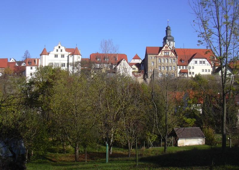 View of Gochsheim in Baden-Württemberg, Germany